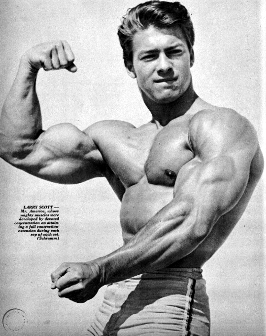 Larry Scott, American bodybuilder.